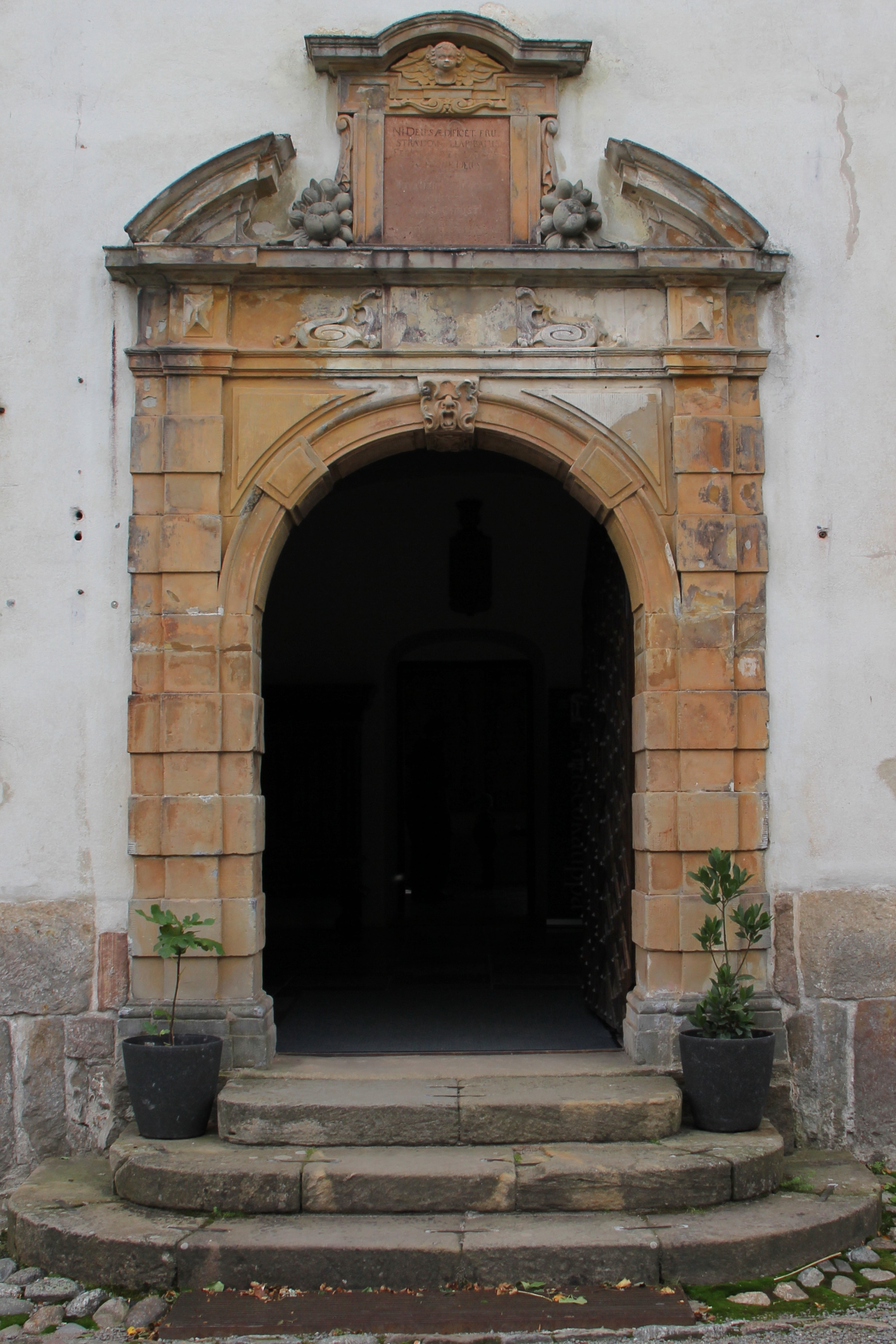 Louhisaari manor, Askainen, Masku, Finland. - Main building. Portal.